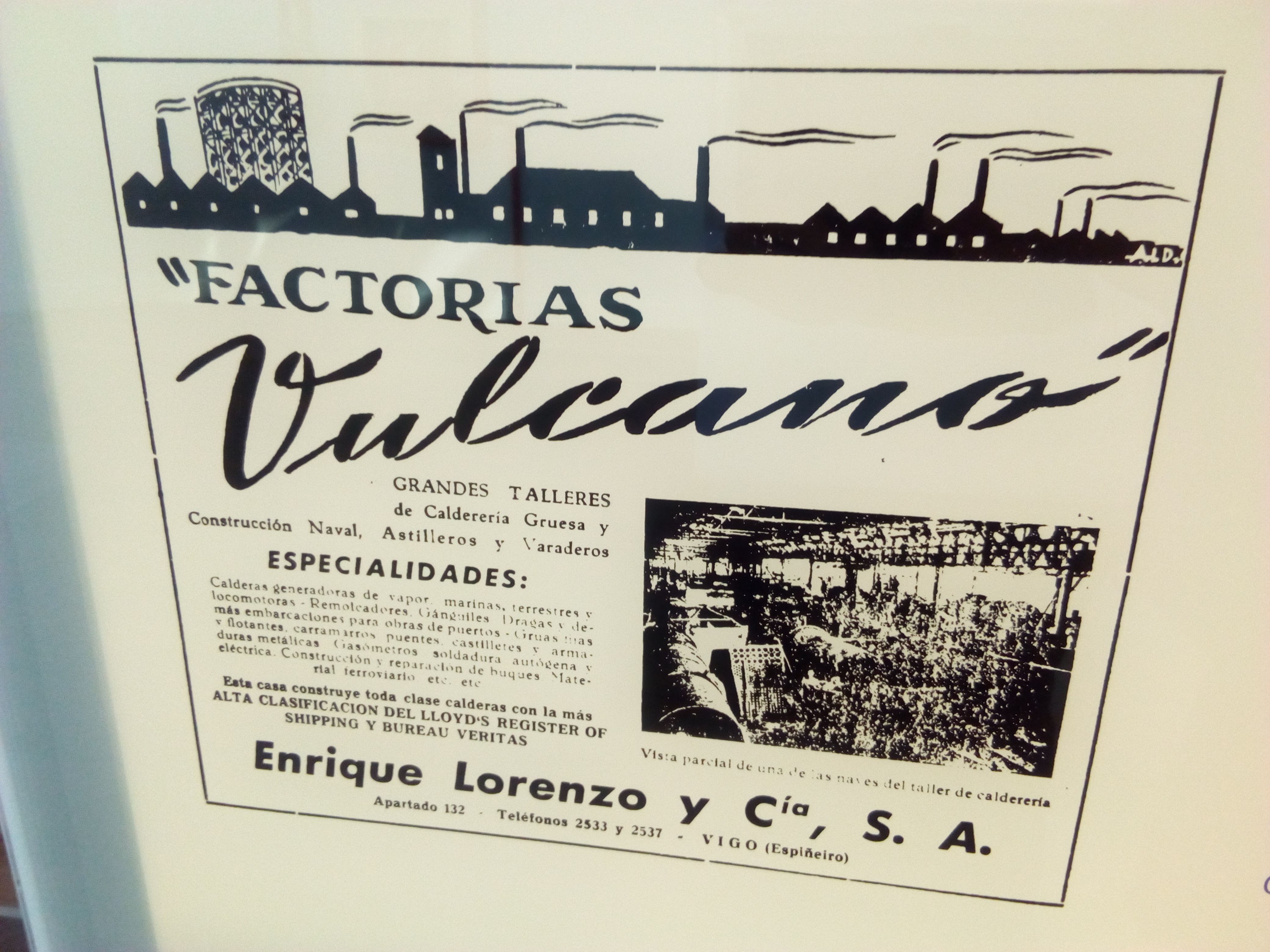 cartel en museo do mar vulcano.